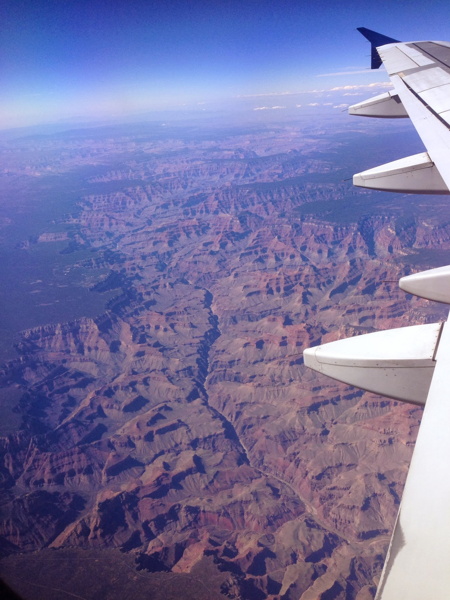 The Grand Canyon from the air. I took this photo myself on October 3, 2013.